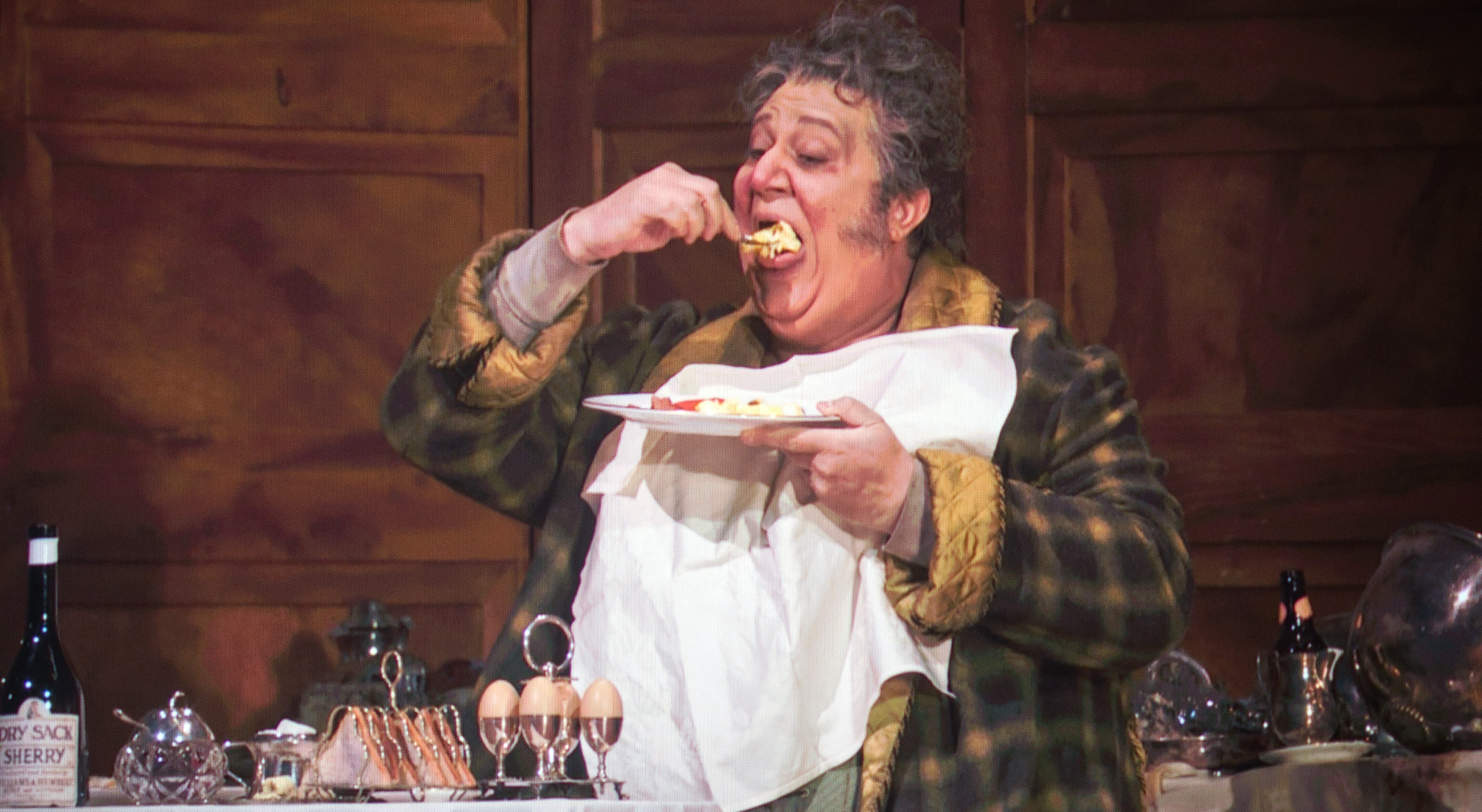 The Metropolitan Opera presents Falstaff, December 2013